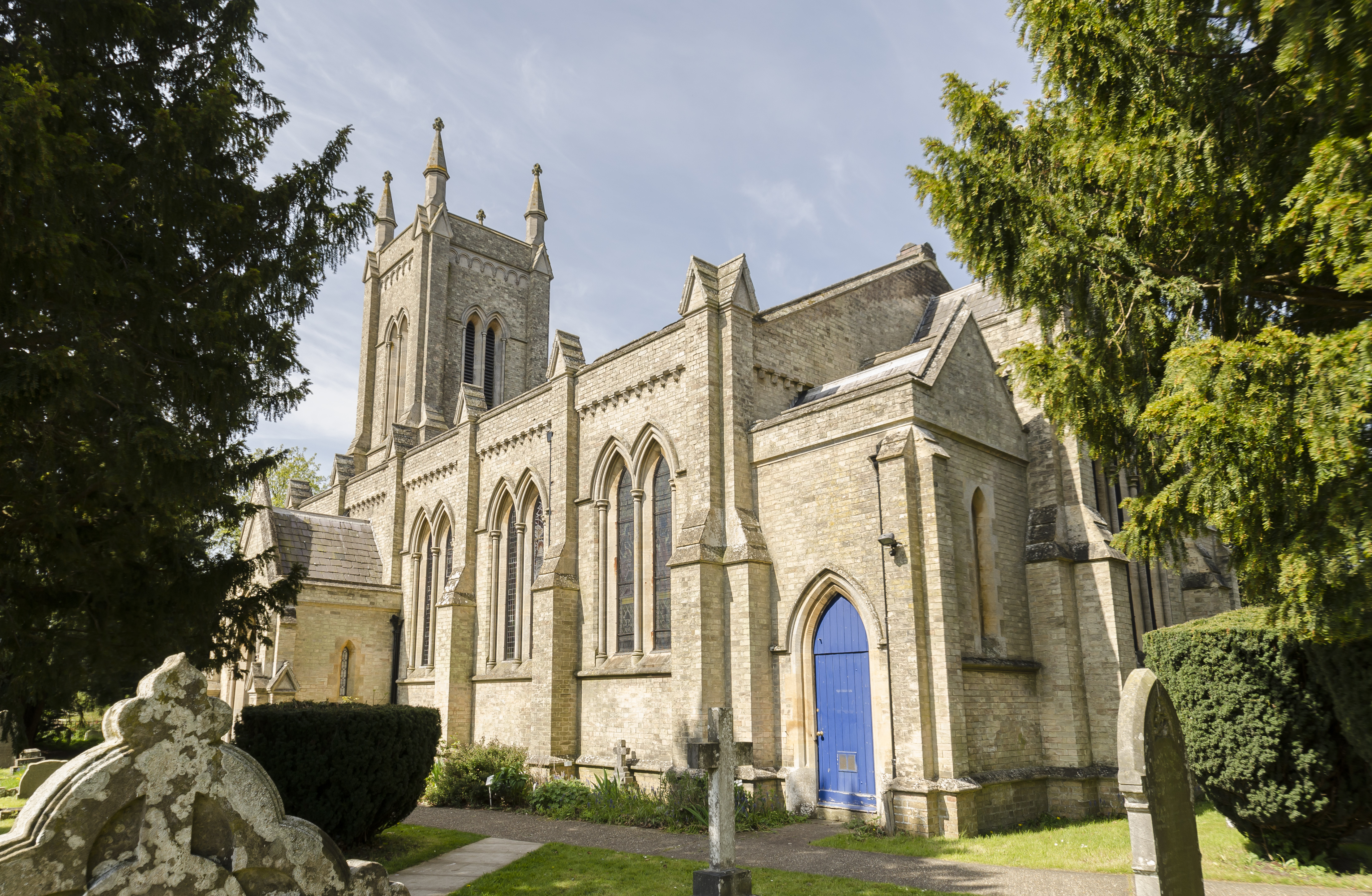 All Saints' parish church, Wragby, Lincolnshire, seen from the northeast